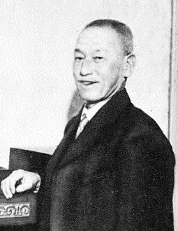 Takeji Nara